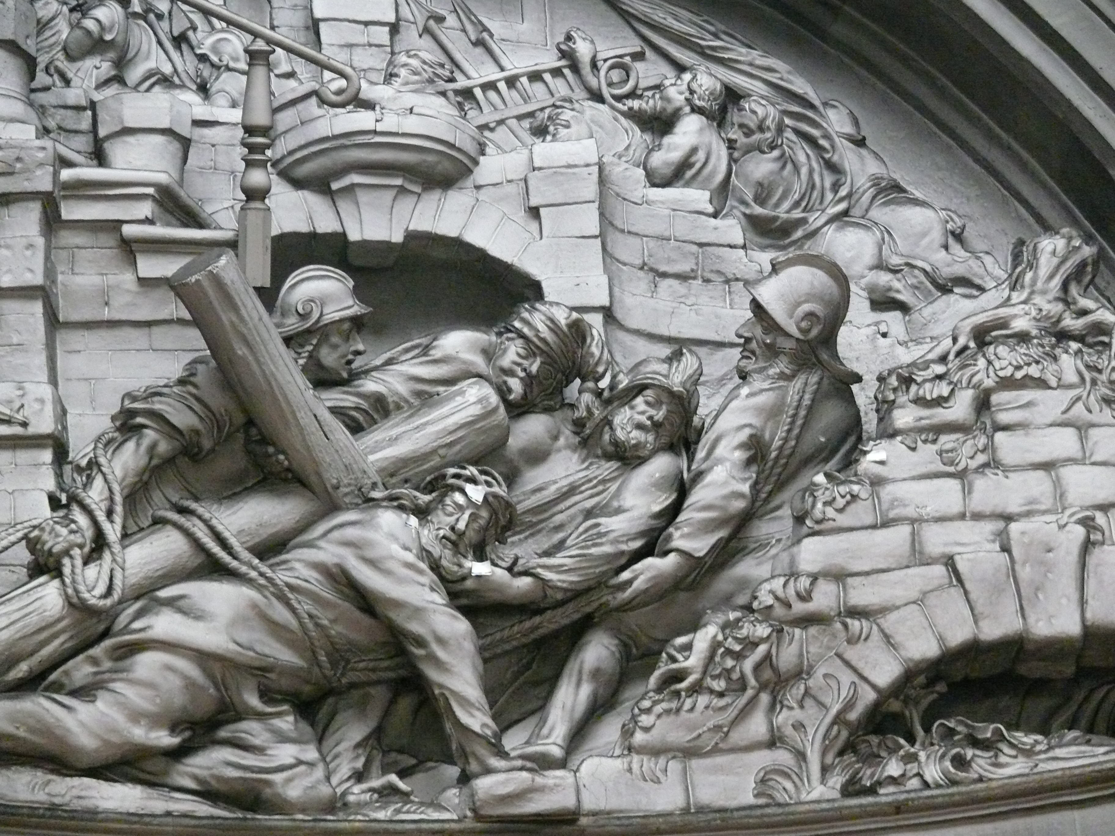 Relief of the Jesus carries his Cross (1675-1677) by Lucas Faydherbe in the Basilica of Our Lady of Hanswijk (Mechelen, Flanders, Belgium).